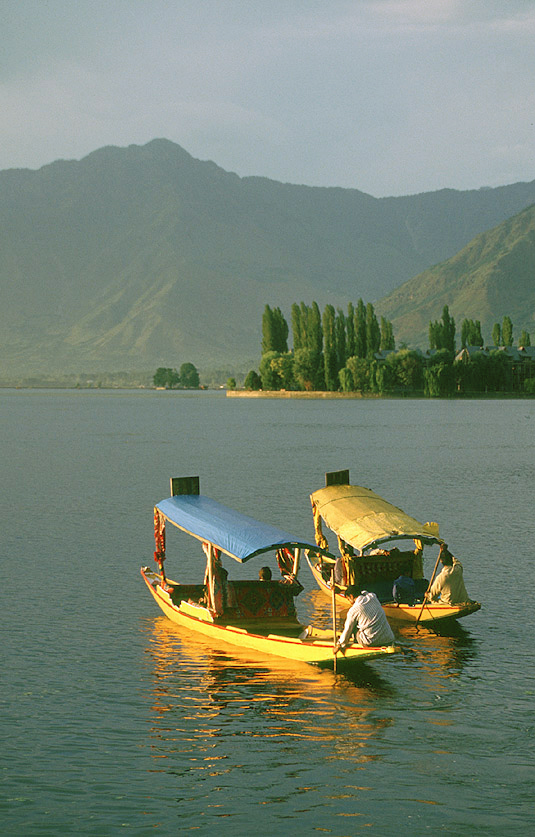 Shikharas on Dal Lake, Jammu and Kashmir, Northern India